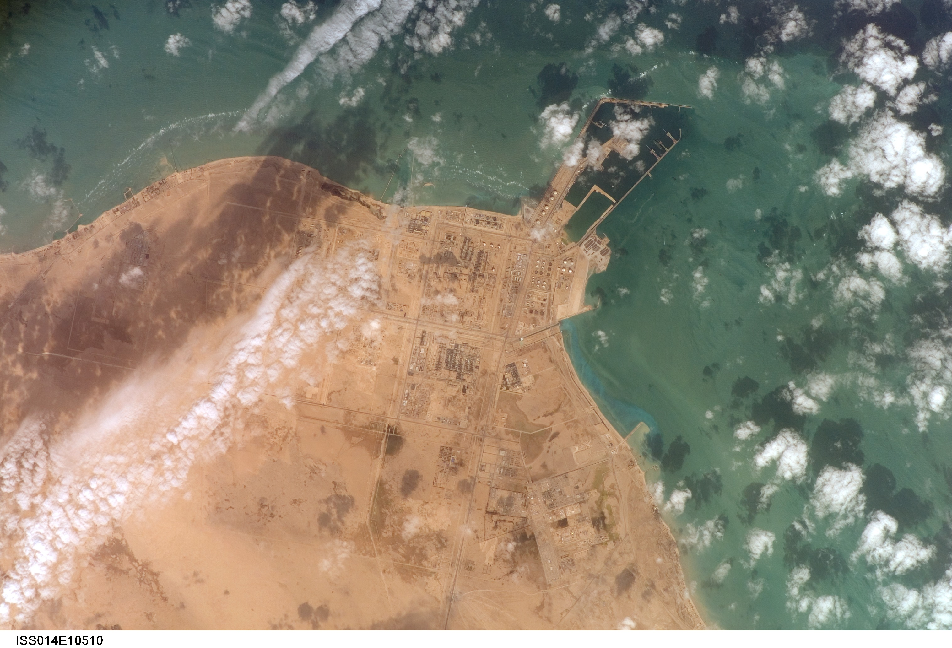 Ras Laffan satellite imagery taken in 2006 by NASA.